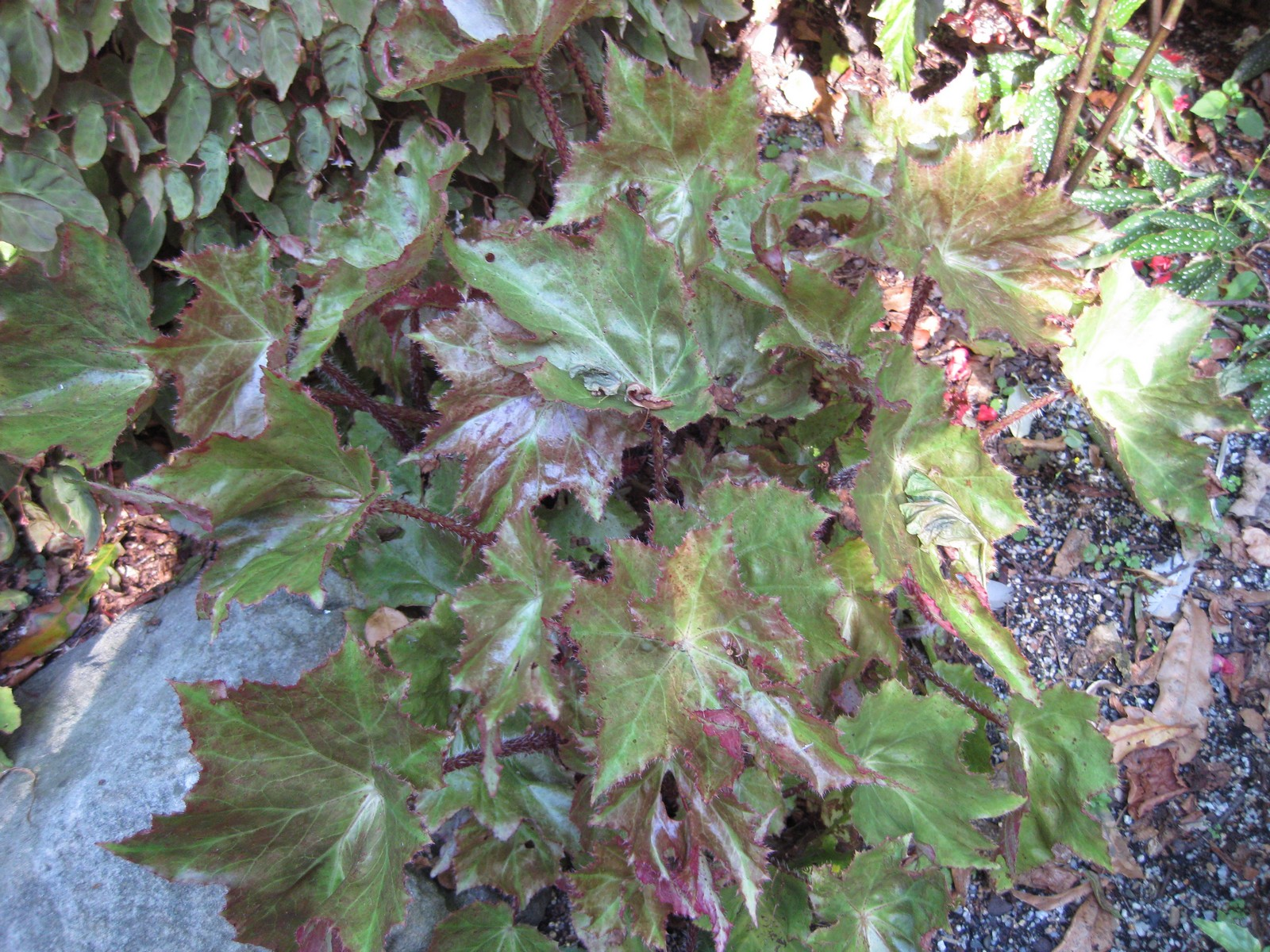 Photographed at the Royal Botanic Gardens Sydney (Australia) in December